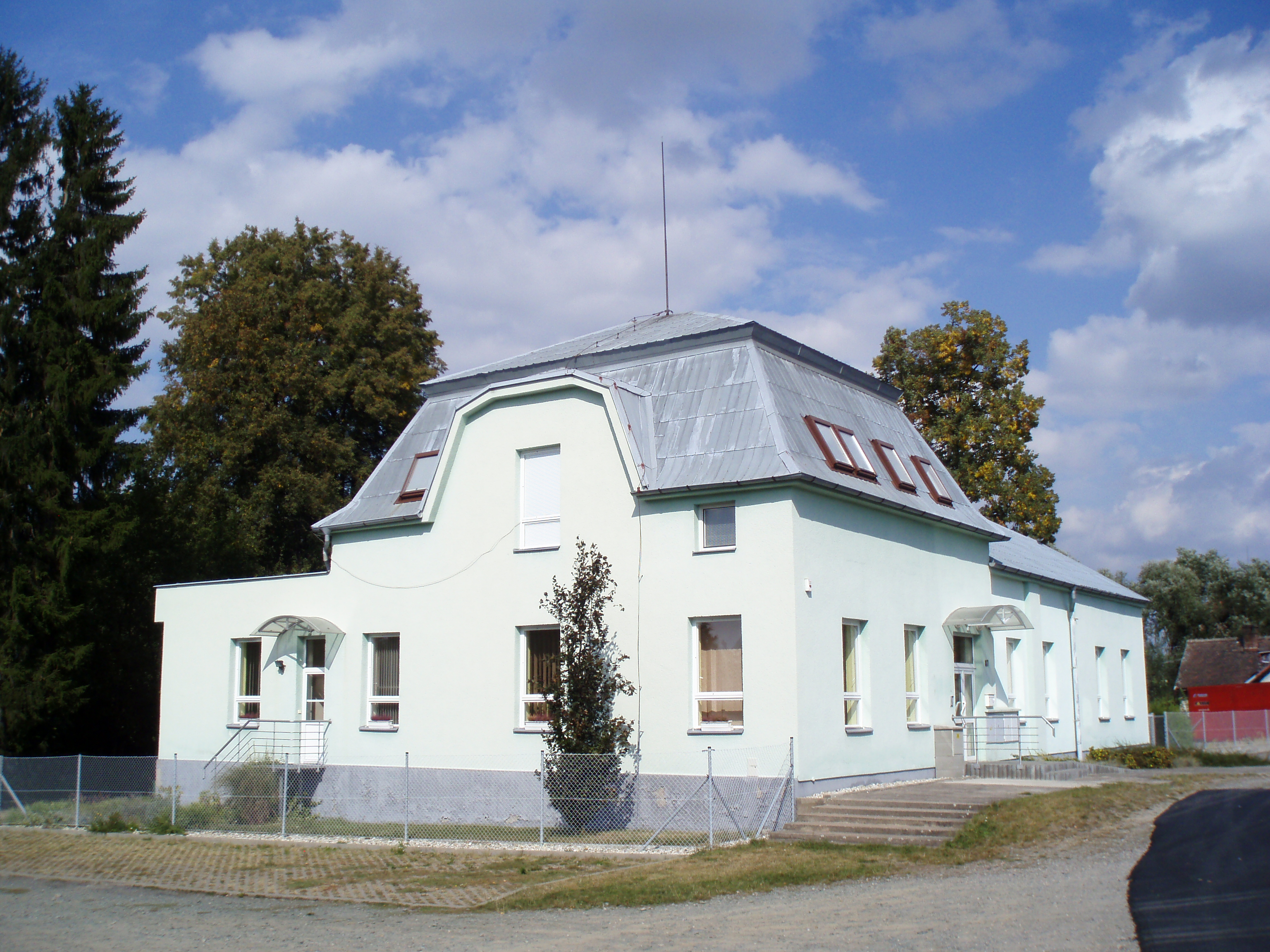 Kingdom Hall of Jehovah's Witnesses in Hradec Králové (Czechia)